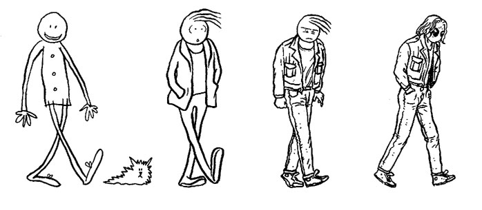 Hugo Tate, character from comic strip by Nick Abadzis. Reproduced with Abadzis' permission (permission provided by e-mail).